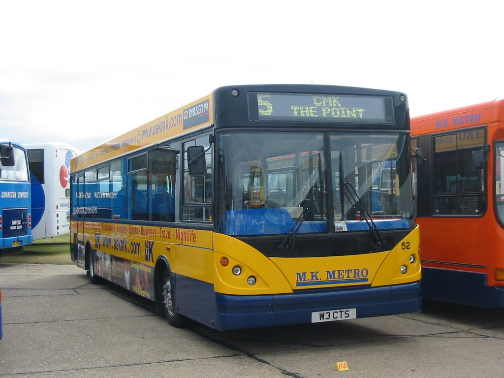 An MK Metro bus at Showbus 2004